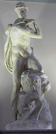 Statue of Victory by Michelangelo (1533-1534), Salone dei Cinquecento, Palazzo Vecchio, Firenze, Italy